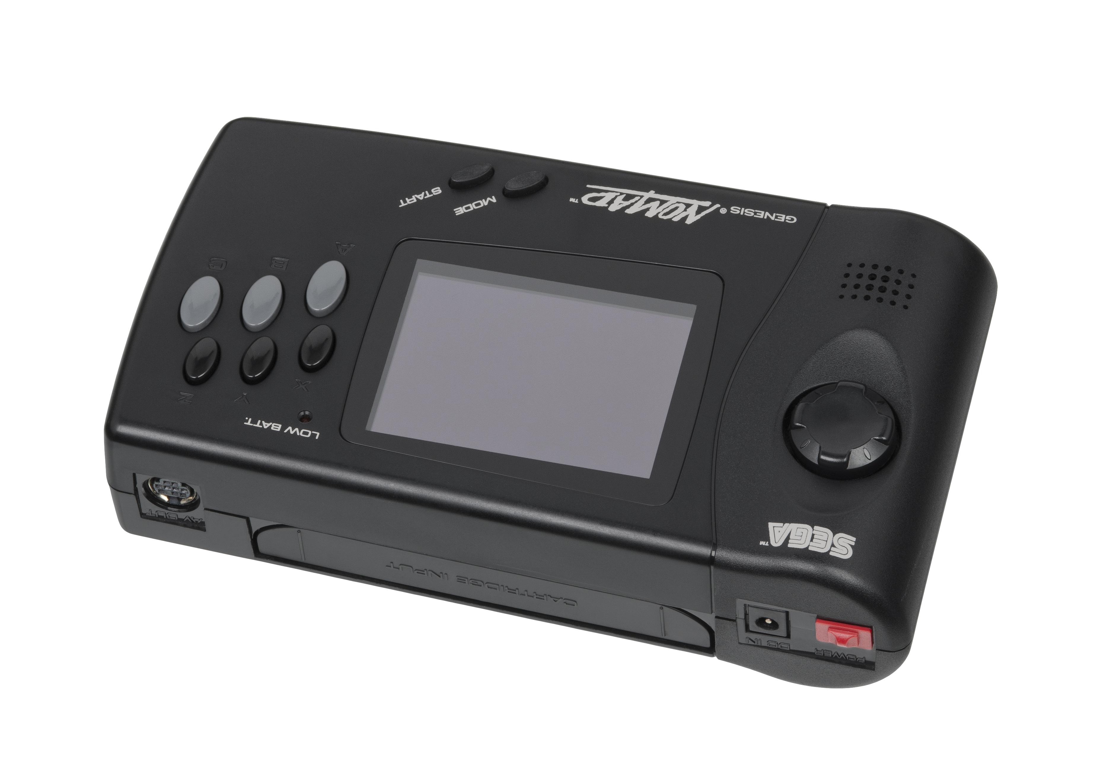 The Sega Nomad, a portable version of the Sega Genesis video game console that was released in exclusively in North America in 1995.